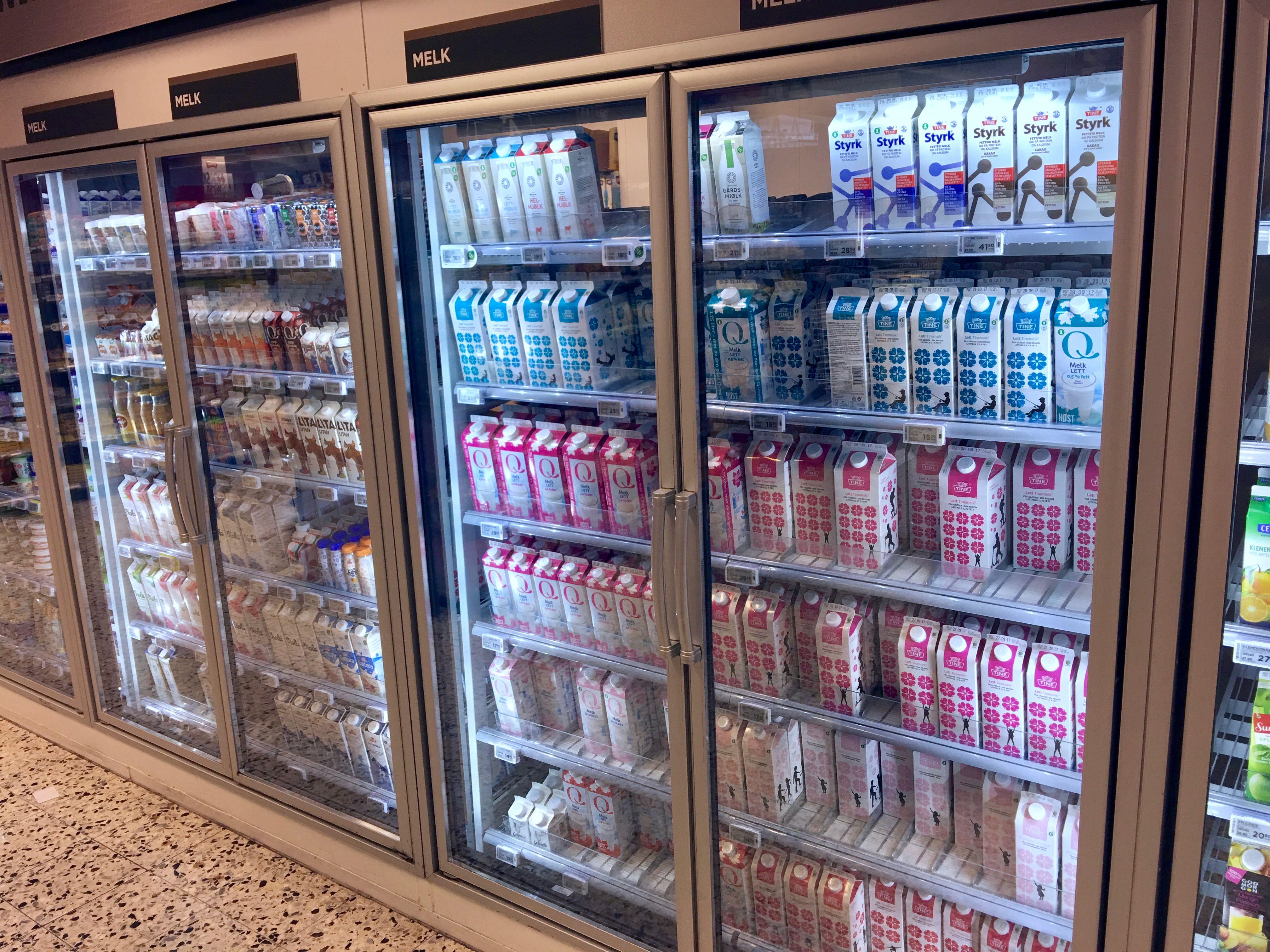 Glass door refrigerator/chiller for milk products (showcase for dairy drinks) in Meny supermarket in Tønsberg, Norway. September 20th, 2017.